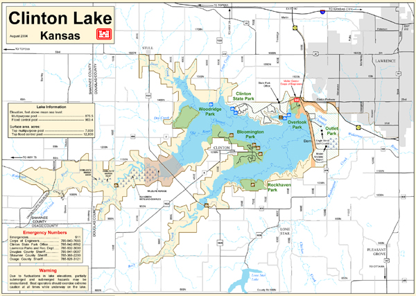 This is a USACE map of the Clinton Lake area in Lawrence, Kansas. It was retrieved from the US Army Corps of Engineers page at